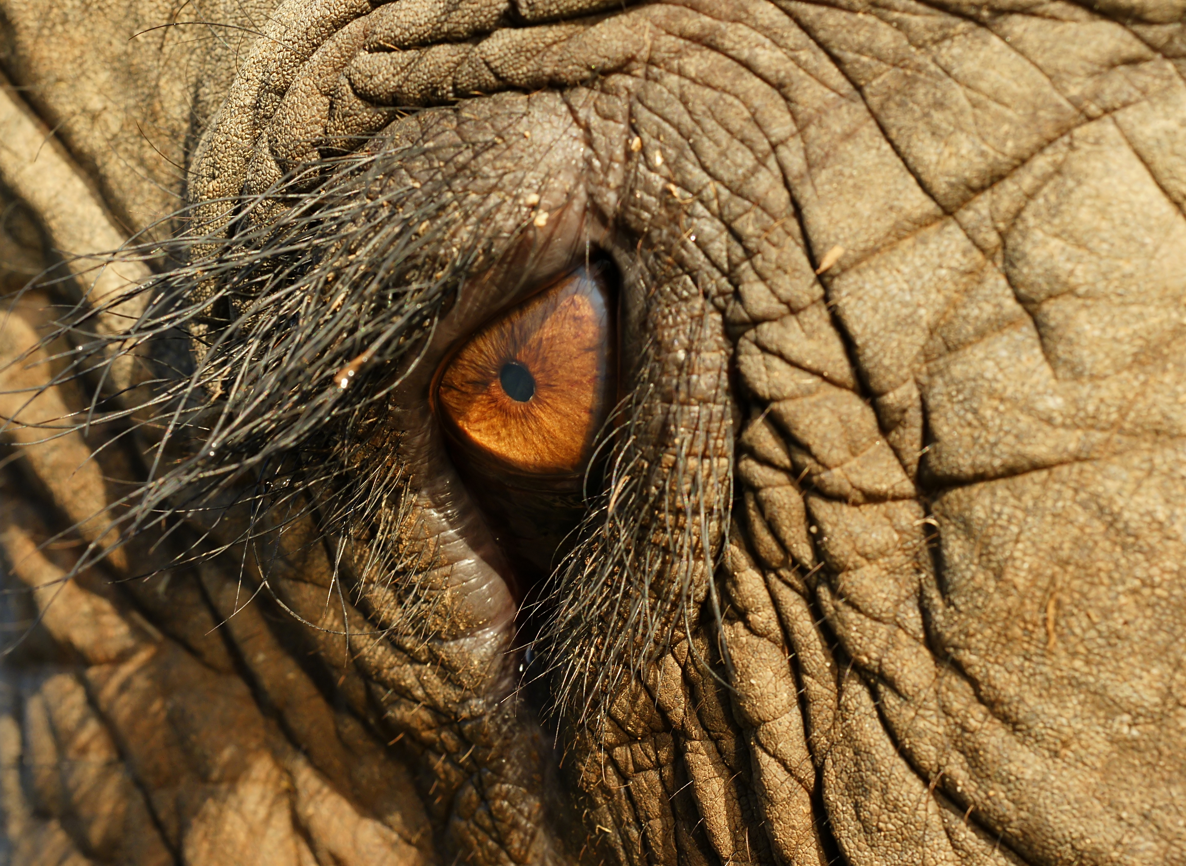 The eye of an Asian elephant at Elephant Nature Park, Thailand, taken using a Sony alpha 700, Minolta 50mm 2.8 Macro